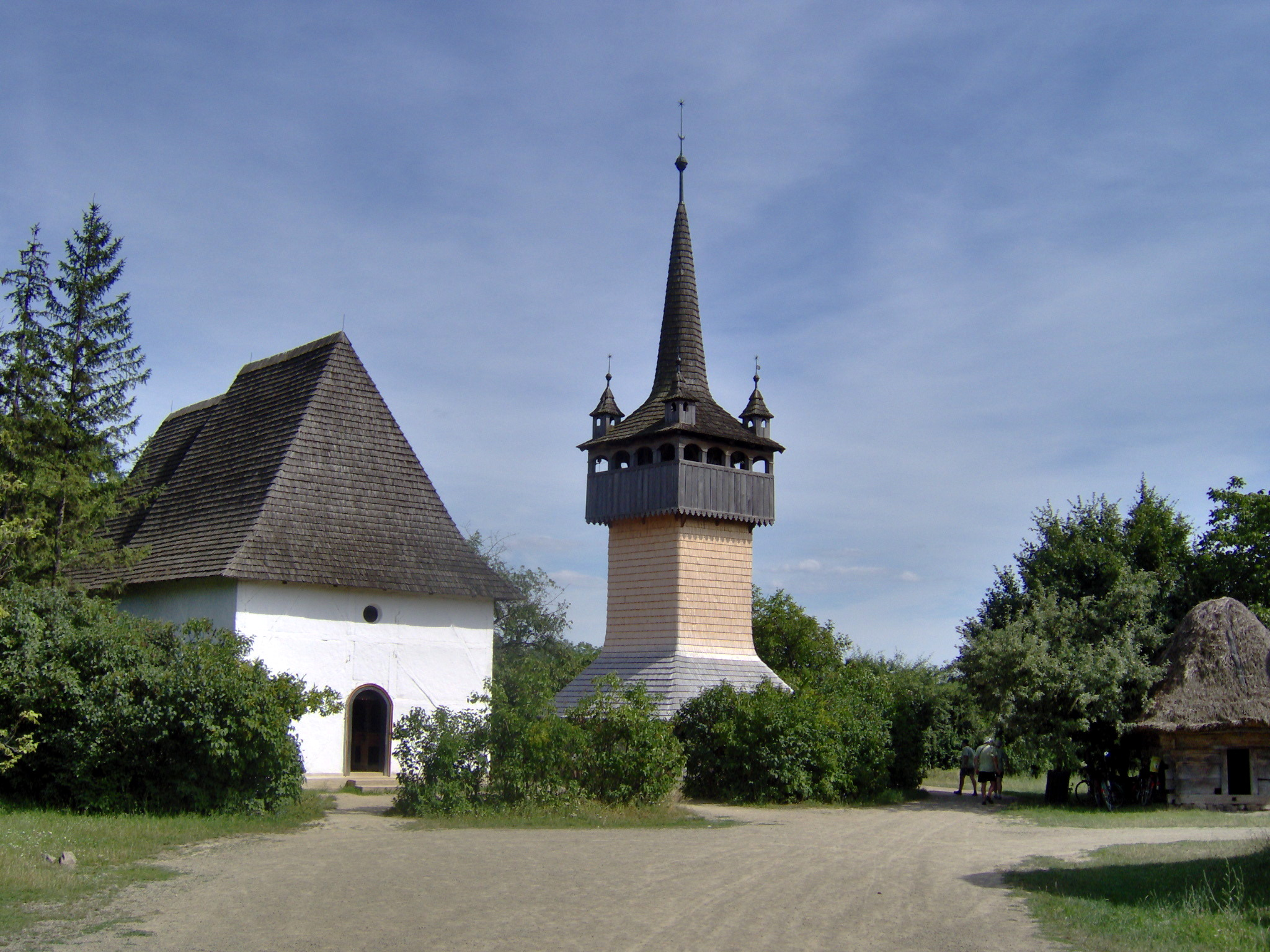 Szentendre Open Air Museum, Belfry, Nemesborzova, Hungary